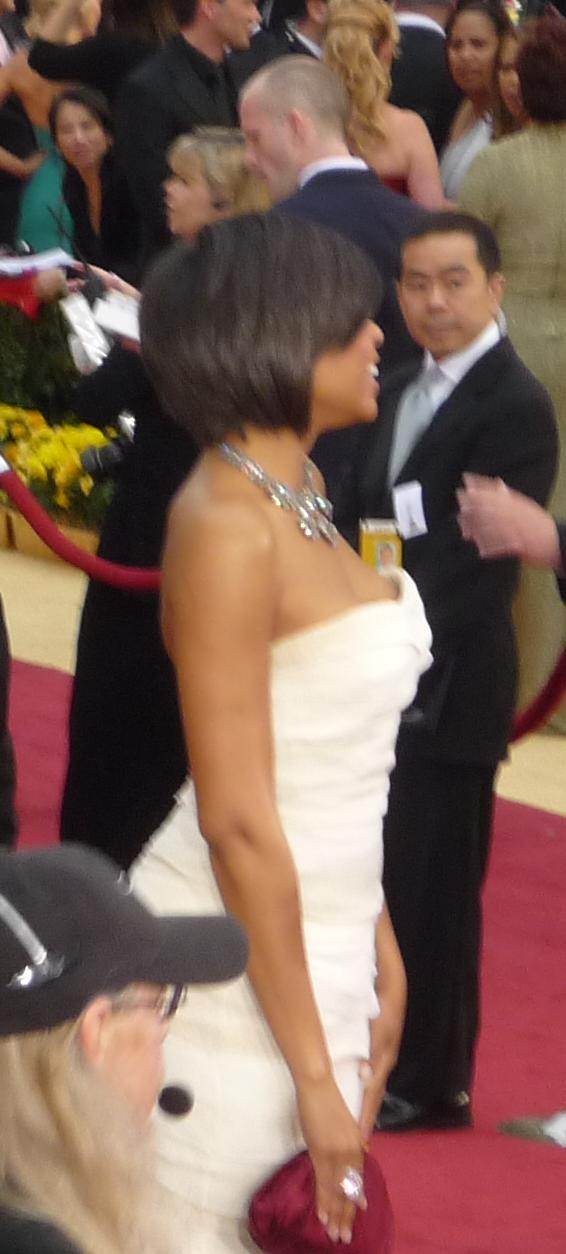 Actress Taraji P. Henson, nominated for "The Curious Case of Benjamin Button" at 81st Annual Academy Awards.